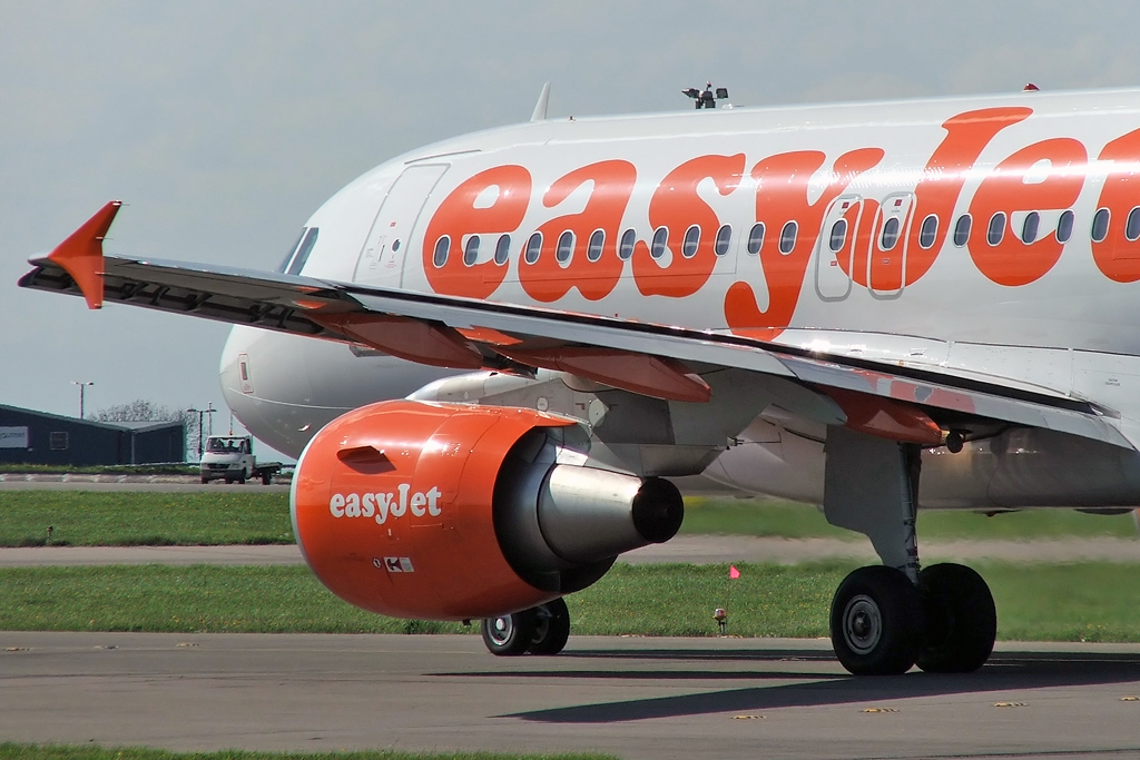 Copyright Tom Collins. Airbus A320 in easyJet colours powered by CFM56 engines.